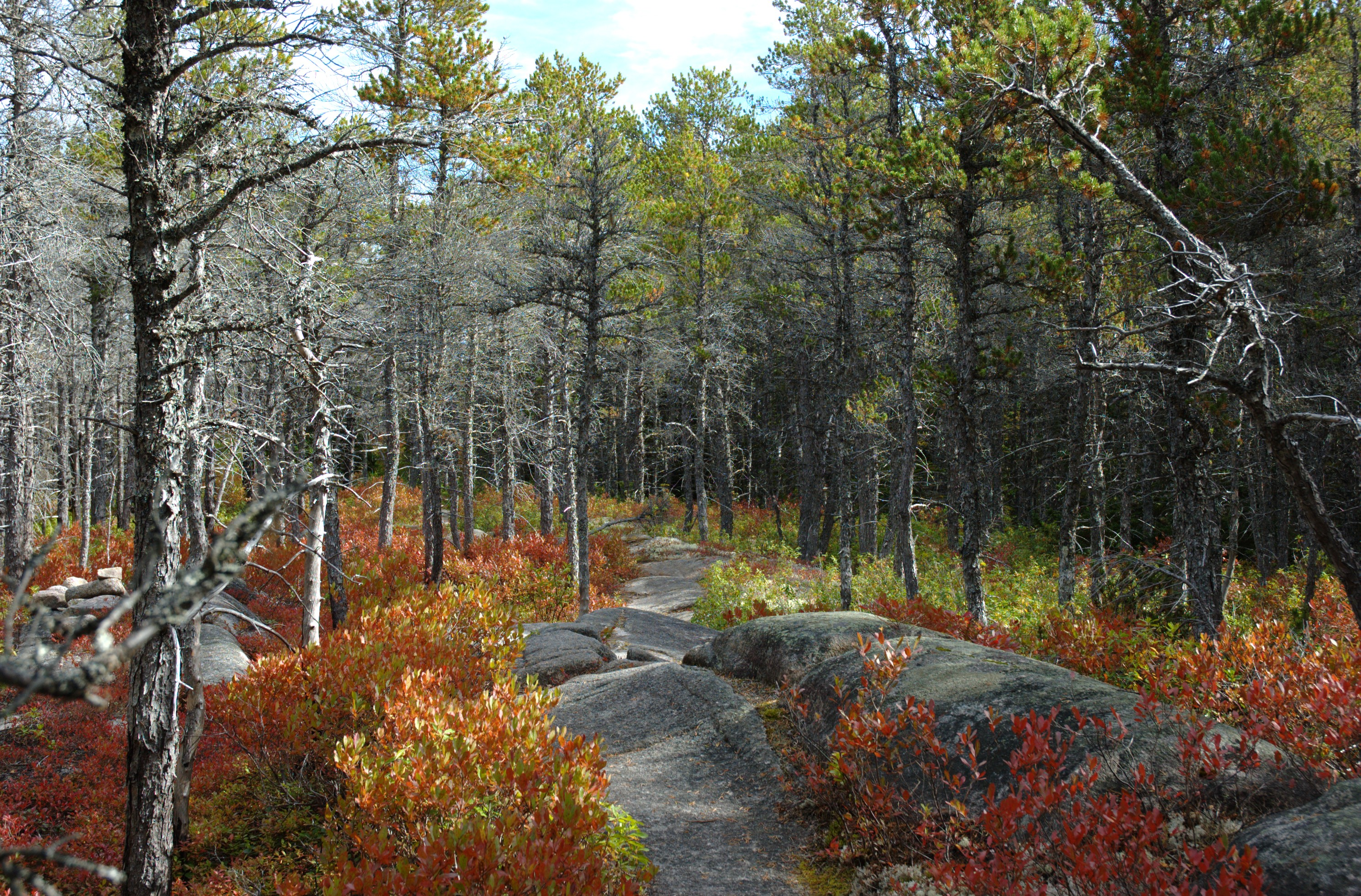 Pinus banksiana forest, Neils Harbour, Nova Scotia, 46°46'33"N 60°19'30"W.